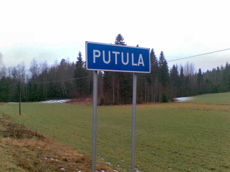 Village limit sign of Putula, Hämeenkoski, Finland